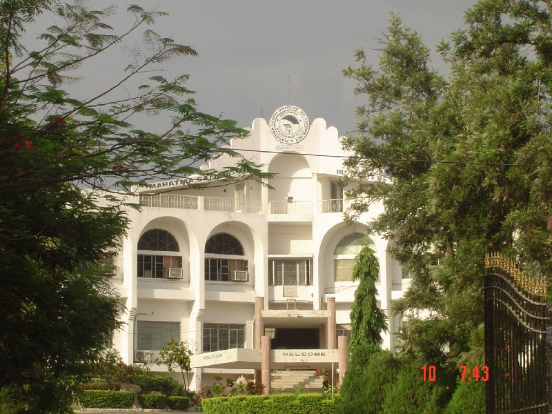 Administration and CSE Dept. Building